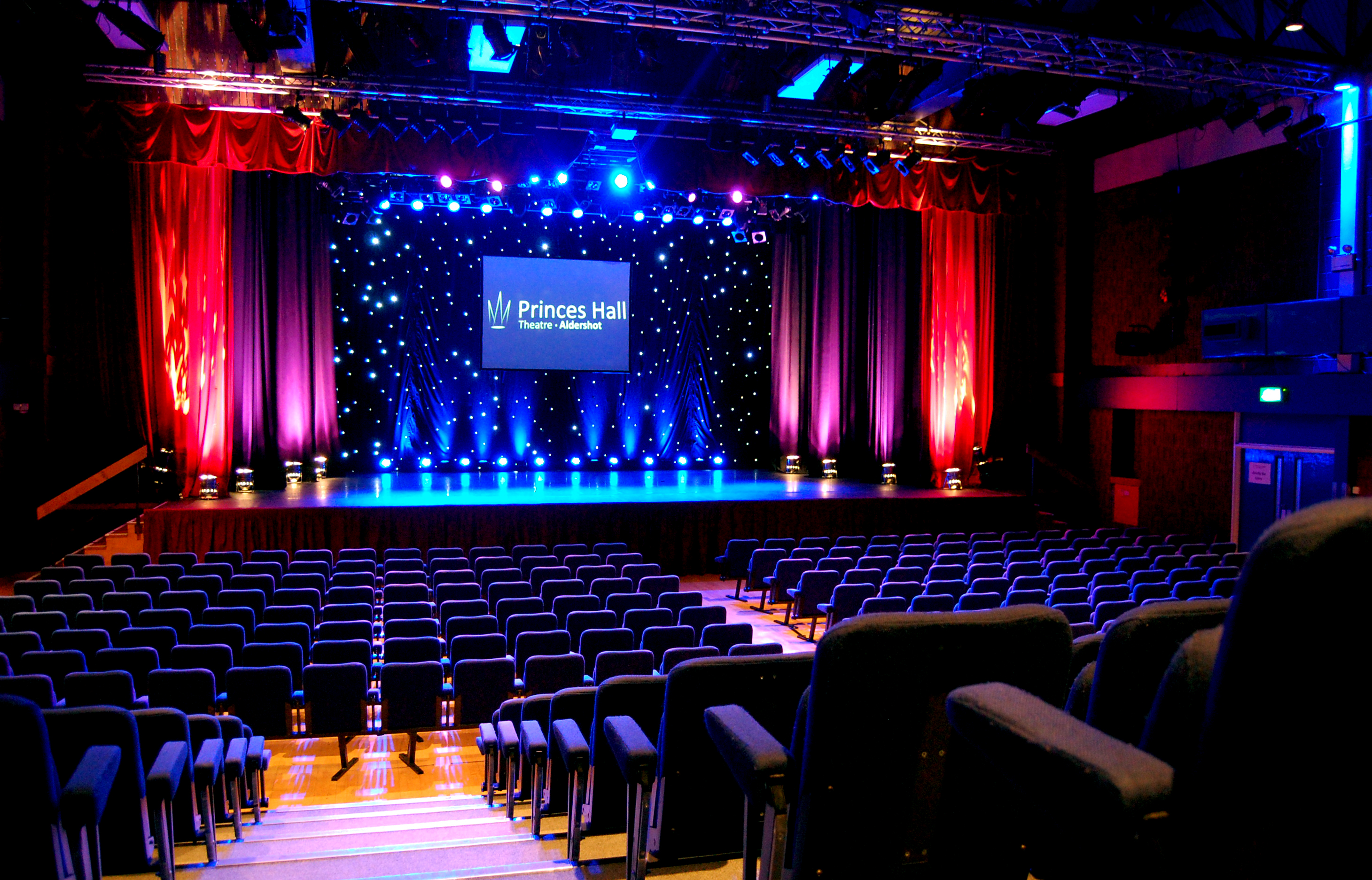 The Auditorium at the Princes Hall in Aldershot in Hampshire